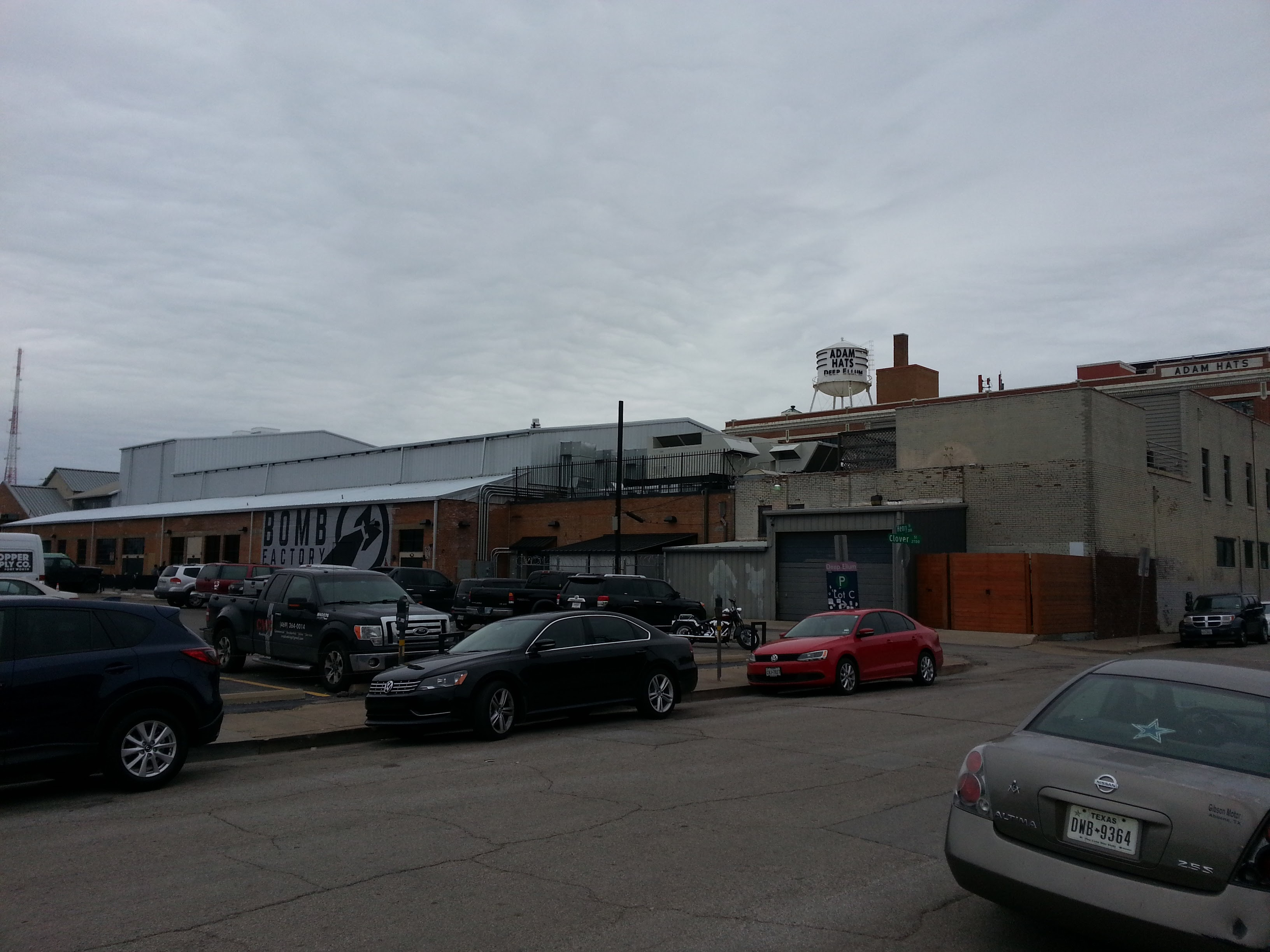 north side of The Bomb Factory in Dallas